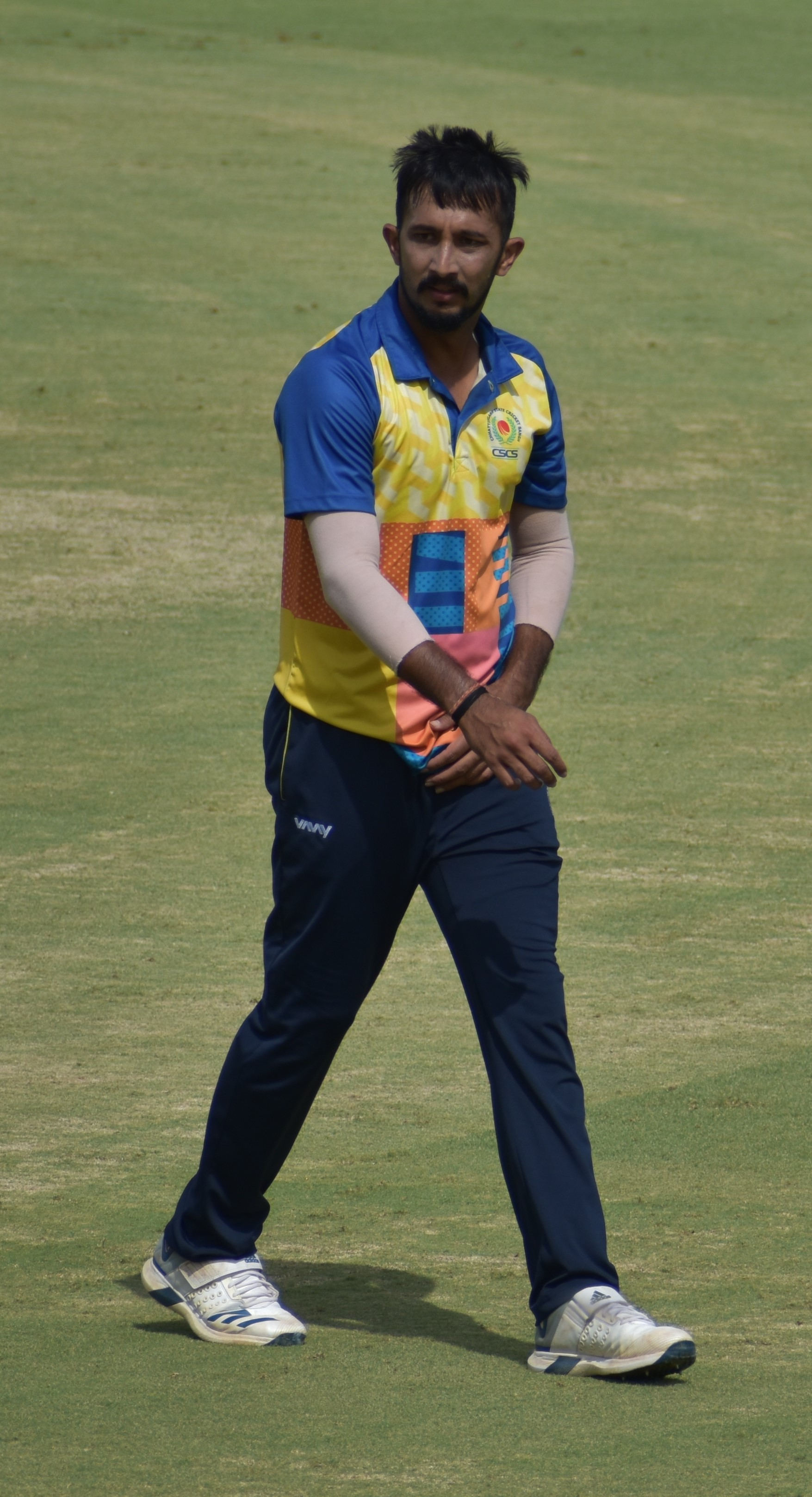 Indian cricketer Puneet Datey during the 2019-20 Vijay Hazare Trophy in Alur, Bangalore.